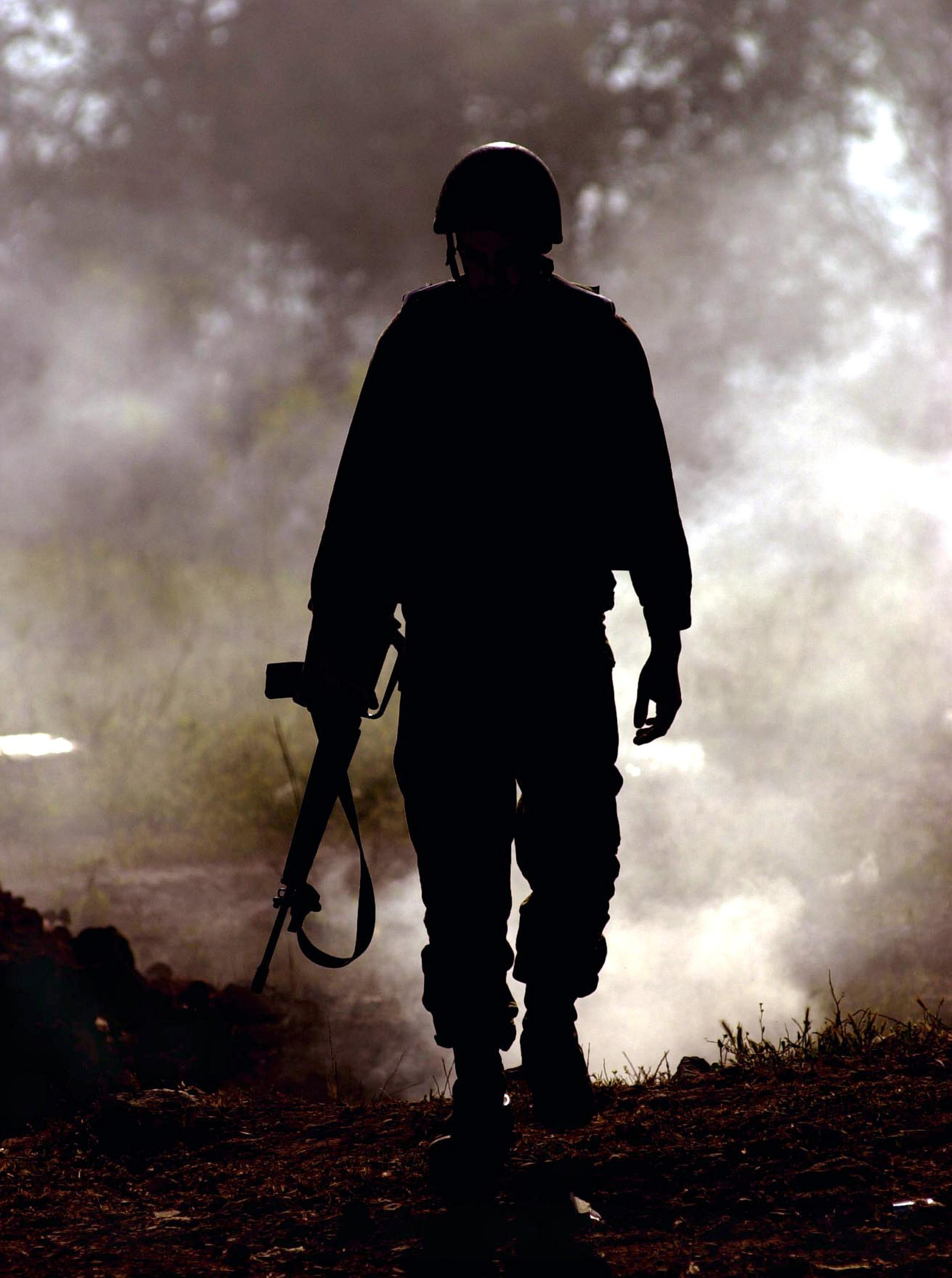 A silhouette of a soldier on the eve of idf withdrawl from Jenin, after the anti terror operation.